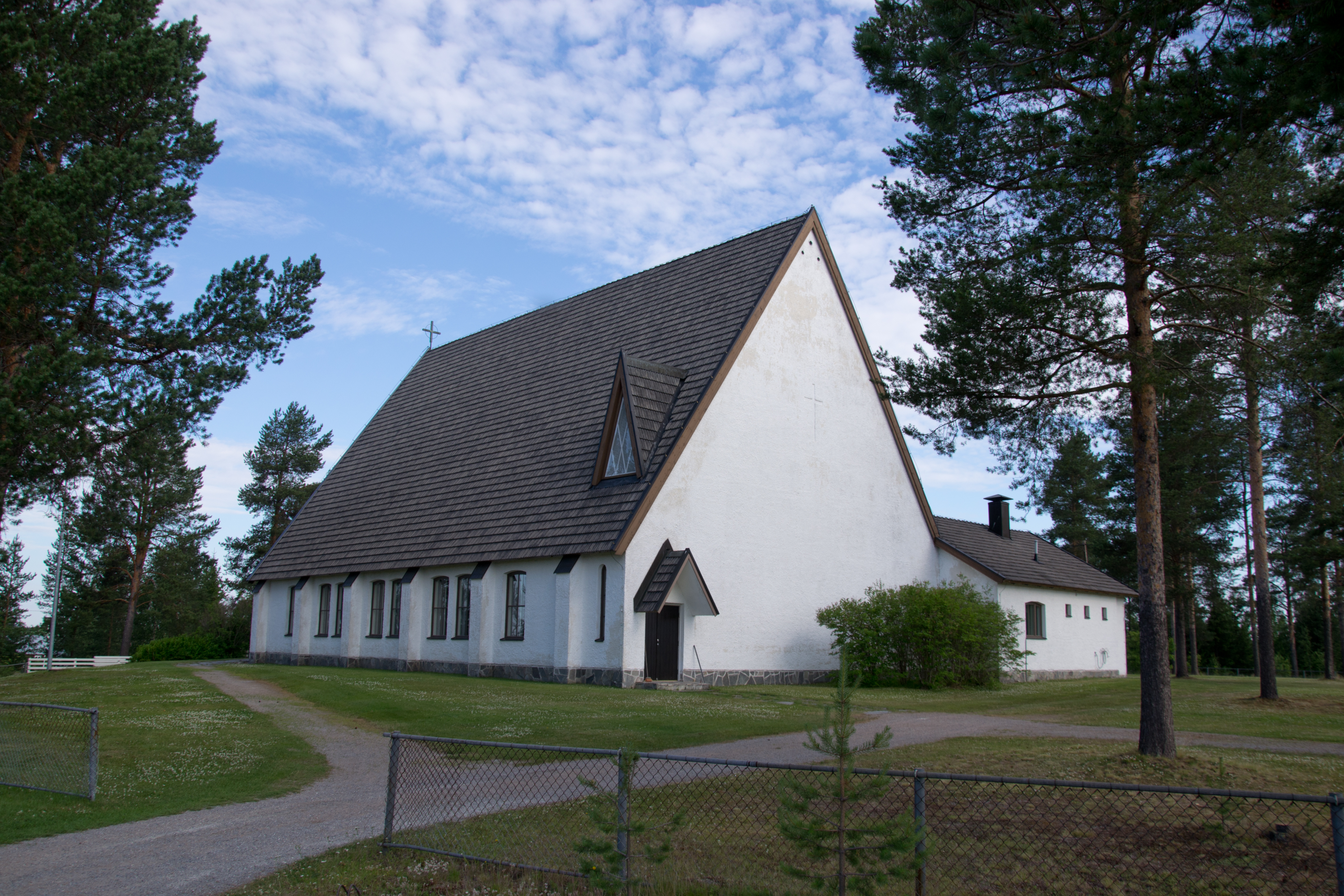 Churh of Pello